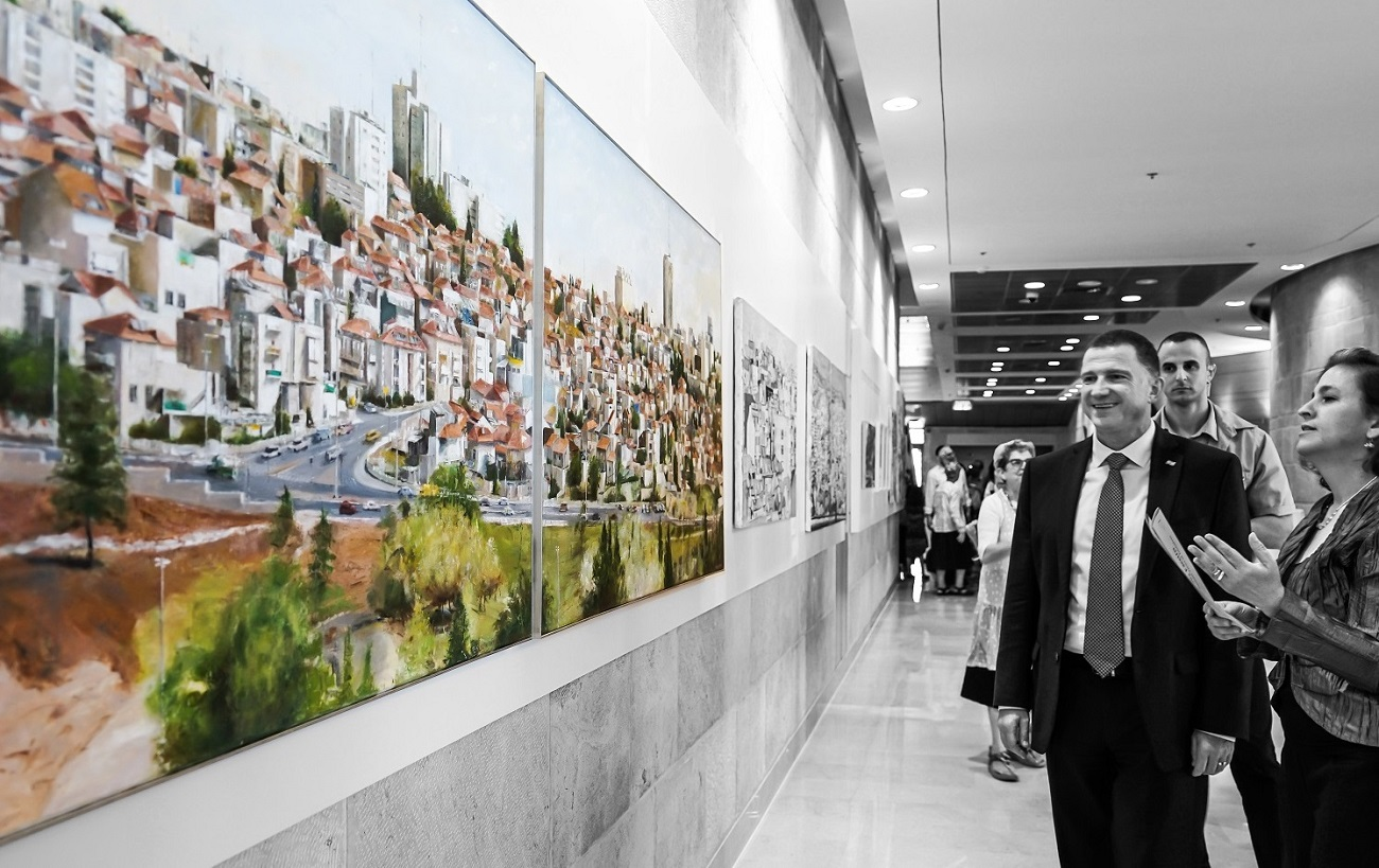 תערוכה בכנסת